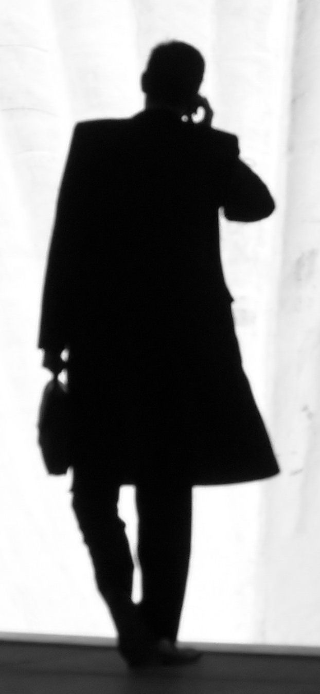 A businessman's silhouette.